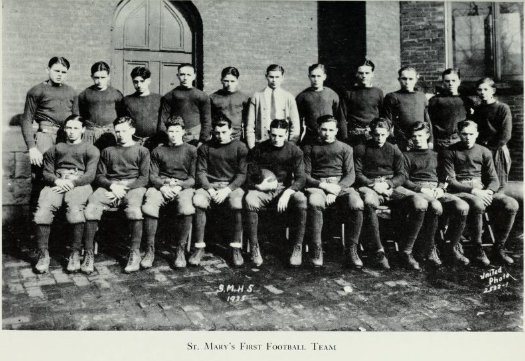 A photograph of the first football team at St. Mary's High School in Bloomington, IL. The school later became Trinity High School and CCHS.